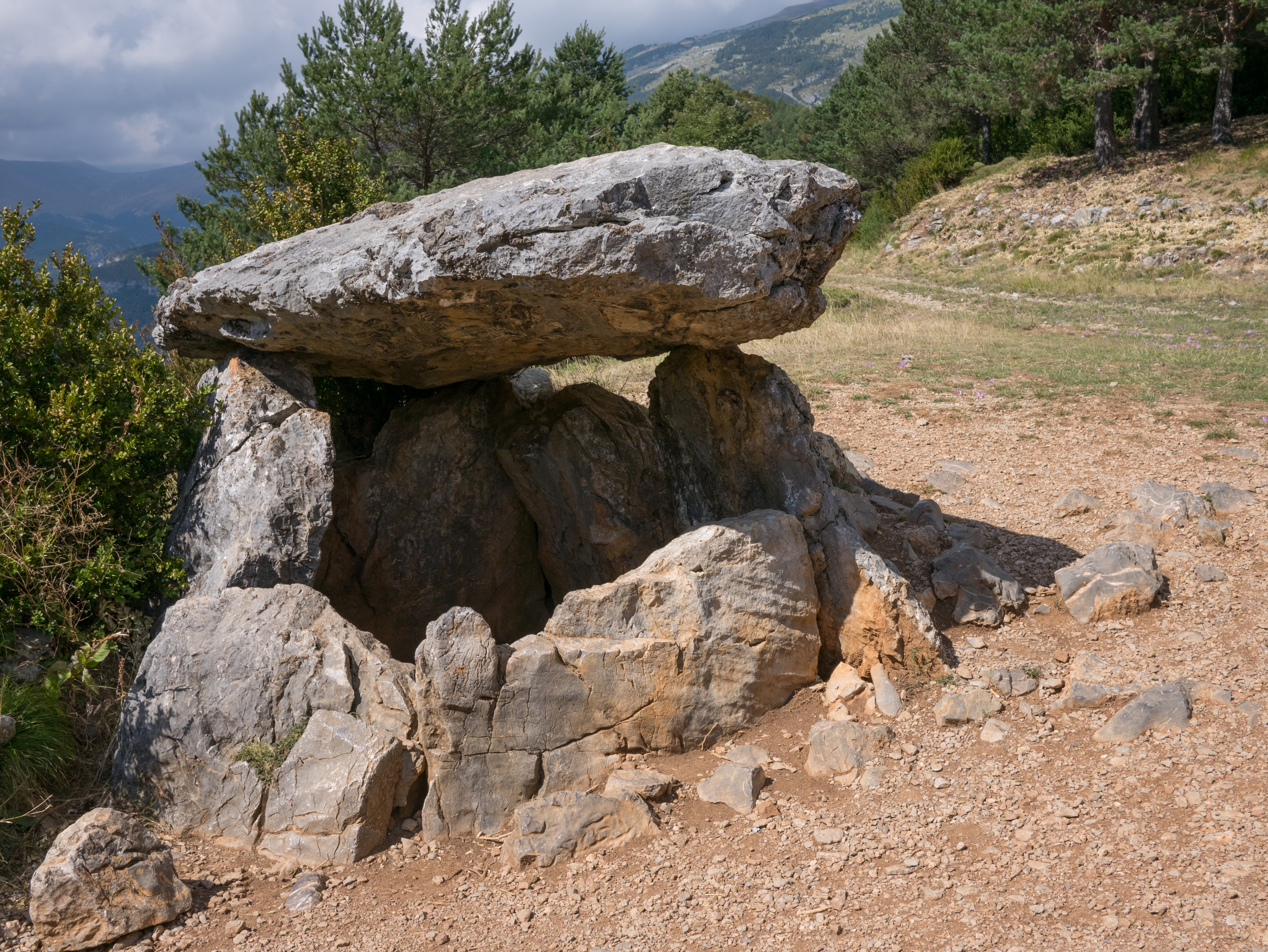 Dolmen of Tella. Sobrarbe, Aragón, Spain